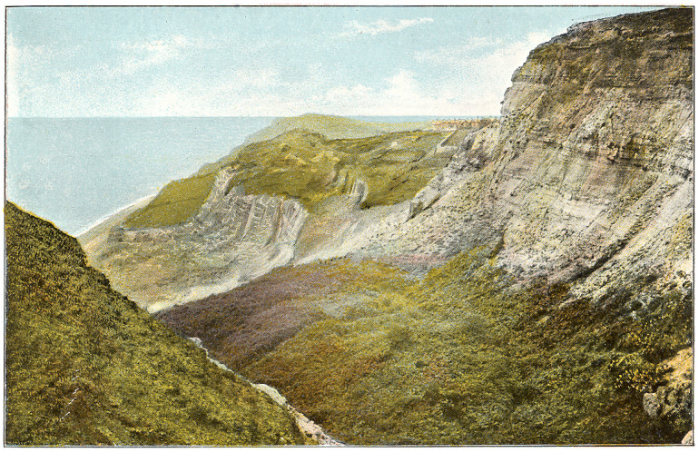 BLACKGANG CHINE.—This view of Blackgang exhibits its wild and rugged grandeur. The cliffs rise to a height of four hundred feet above sea level. The surf-line breaking on the red beach far below on the left, with the broad expanse of sea beyond, is very fine. The cliffs in the middle distance consist of the sands and clays of the lower Greensand formation, and are constantly falling and being eroded by the waves. The breakers on the shore at Blackgang are very grand in stormy weather, the beach being very steep and the water deep outside, a great volume rolls in with magnificent effect and thunderous sound. Geologically it is of great interest, the beds of the lower Greensand being more fully developed here than elsewhere, a thickness of almost eight hundred feet being exhibited in this neighbourhood.